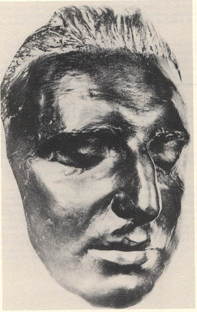 Death Mask of Wolfgang Amadeus Mozart, 18th century